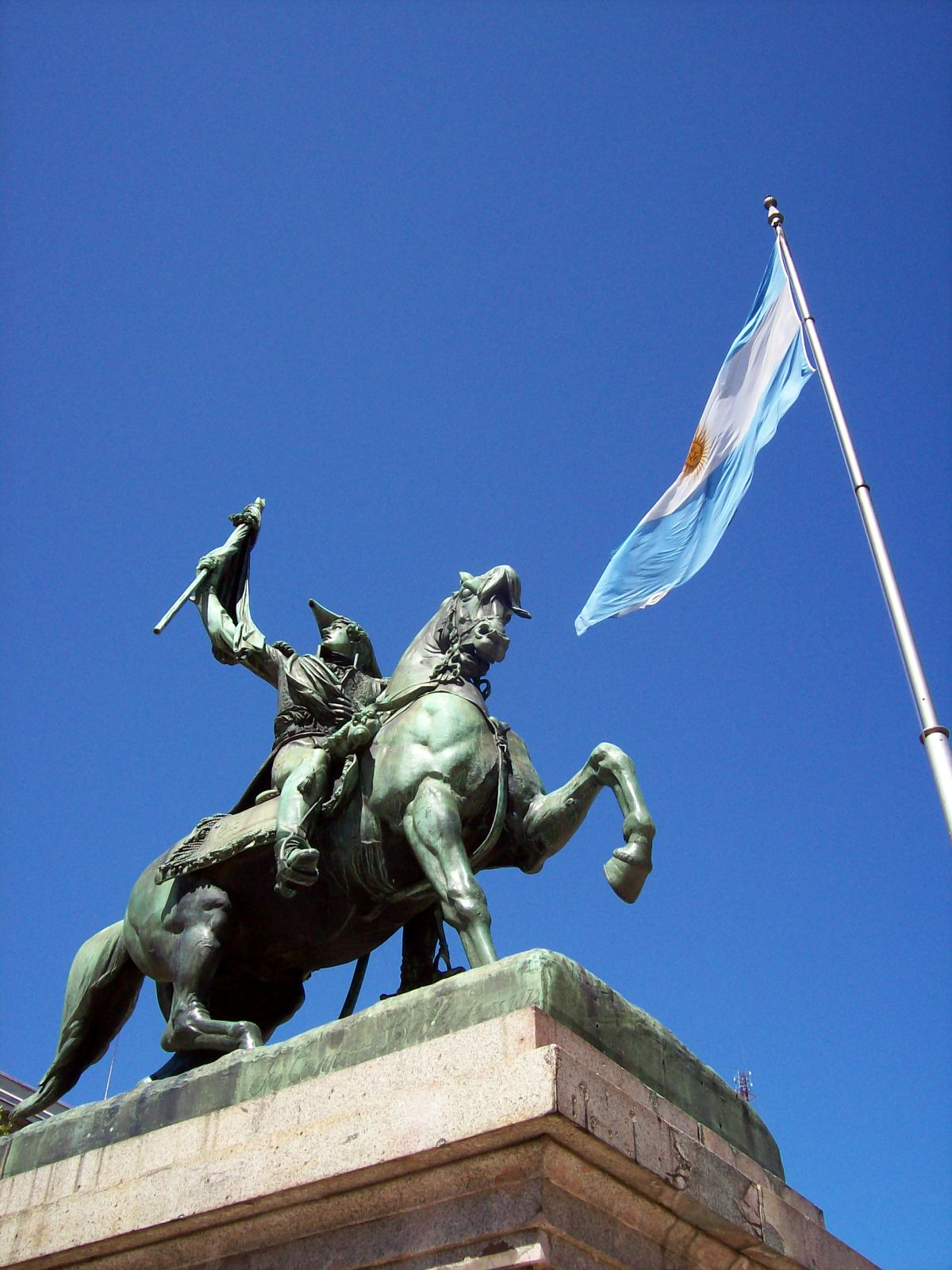 Monument of General Manuel Belgrano, by Albert-Ernest Carrier-Belleuse and Manuel Santa Coloma. Buenos Aires, Argentina